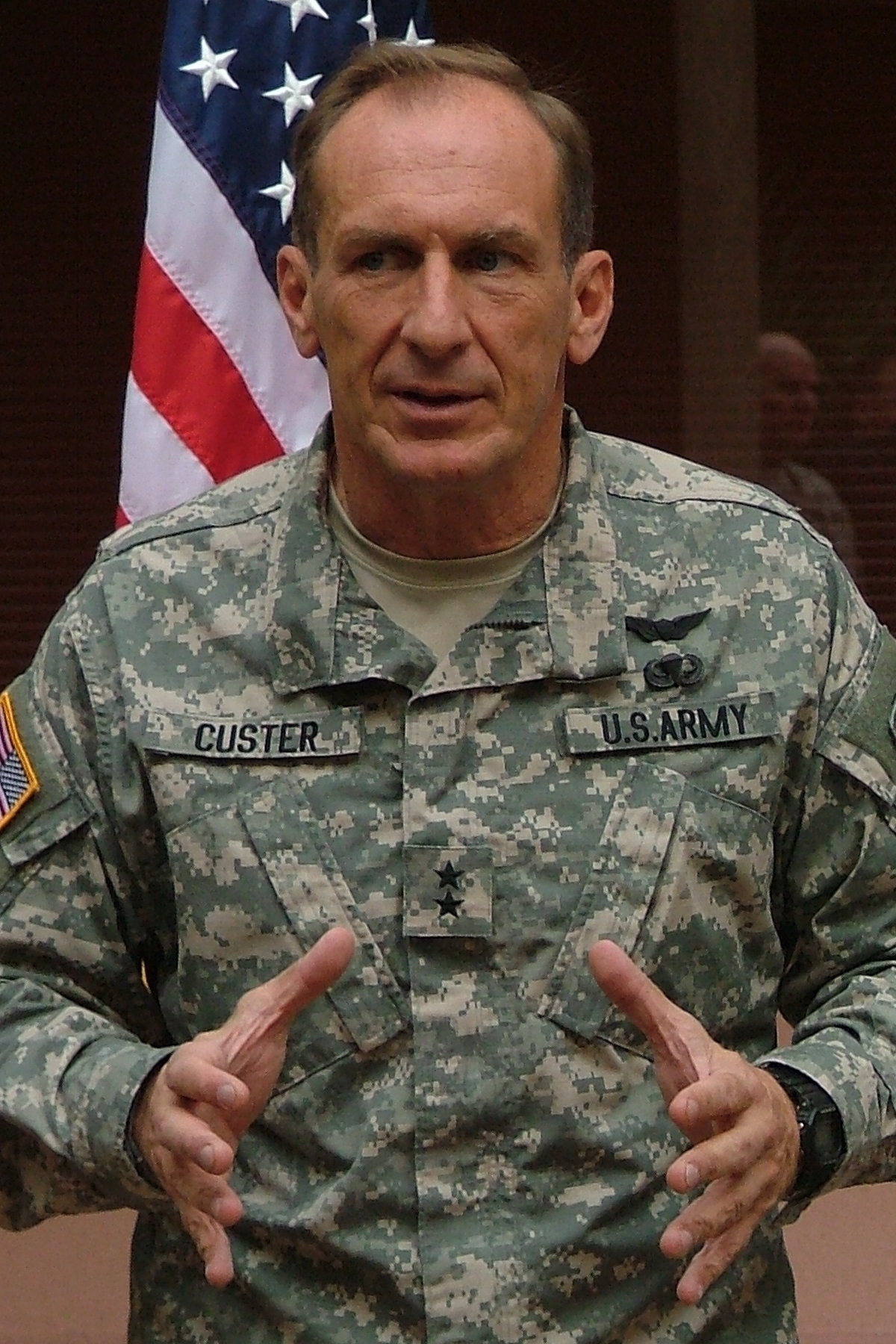 Maj. Gen. John Custer speaks to the crowd as the Human Intelligence Training-Joint Center of Excellence crest is revealed at a ceremony celebrating the center's completion Oct. 1 at Fort Huachuca, Ariz. (Photo Credit: Chelsea Iliff)